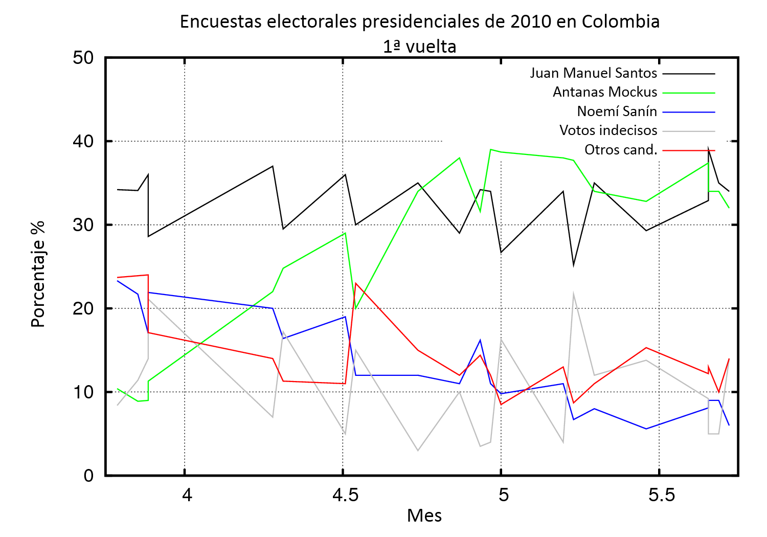 Diagram of opinion polls from different institutions for the Colombian presidential election, 2010.